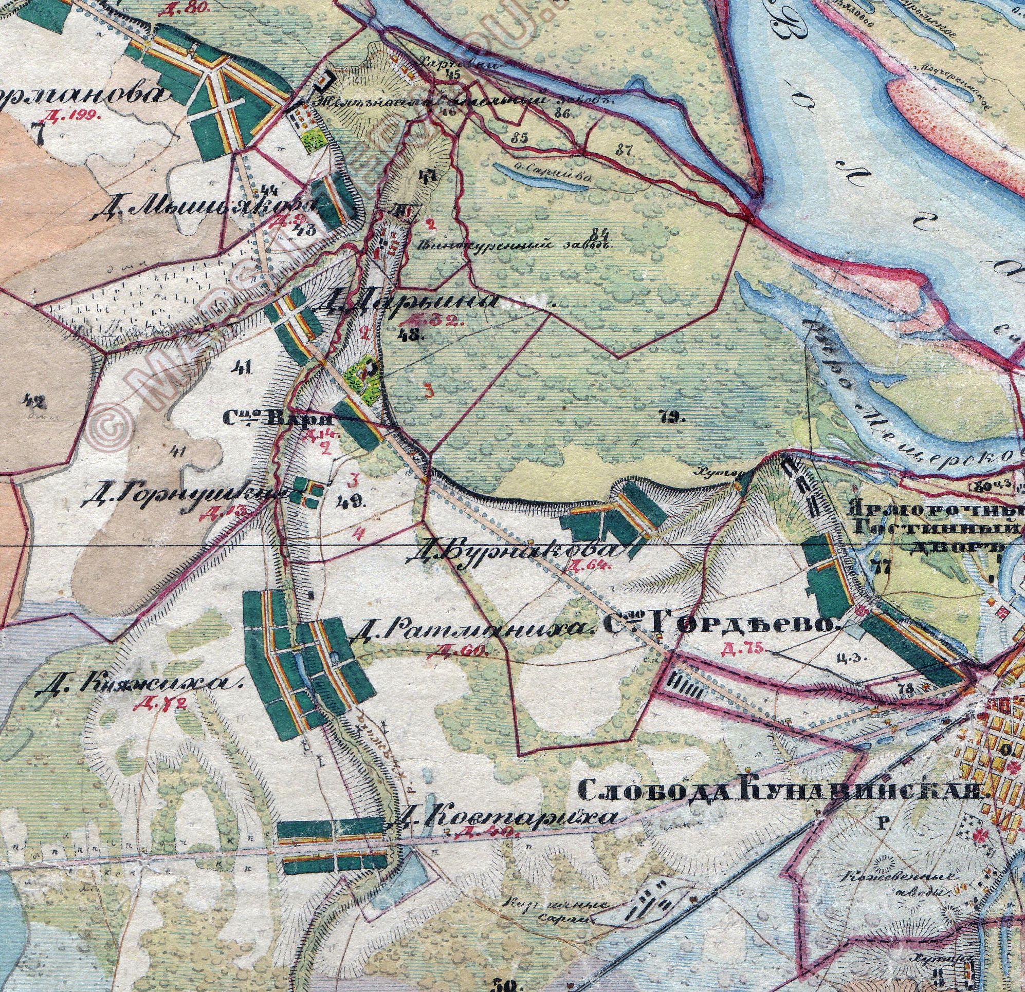 Topographic map of Nizhny Novgorod province. Levinka River and its tributaries. Mende. 1850.